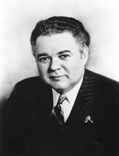 Illinois Senator Charles W. Brooks